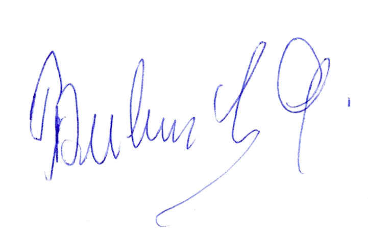 Signature of Gustav Bubník.